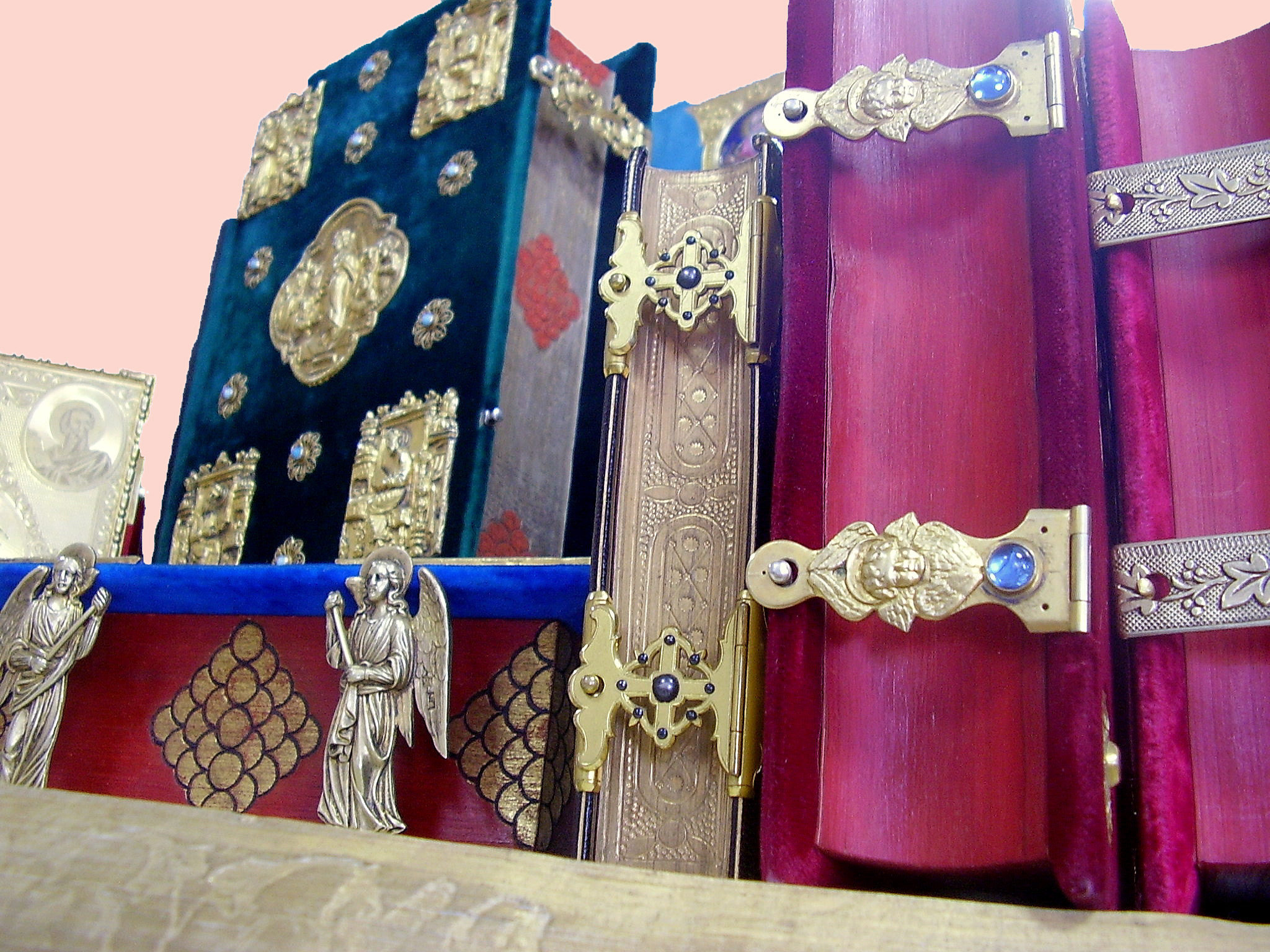 Books in Kirovograd Region Universal Research Library